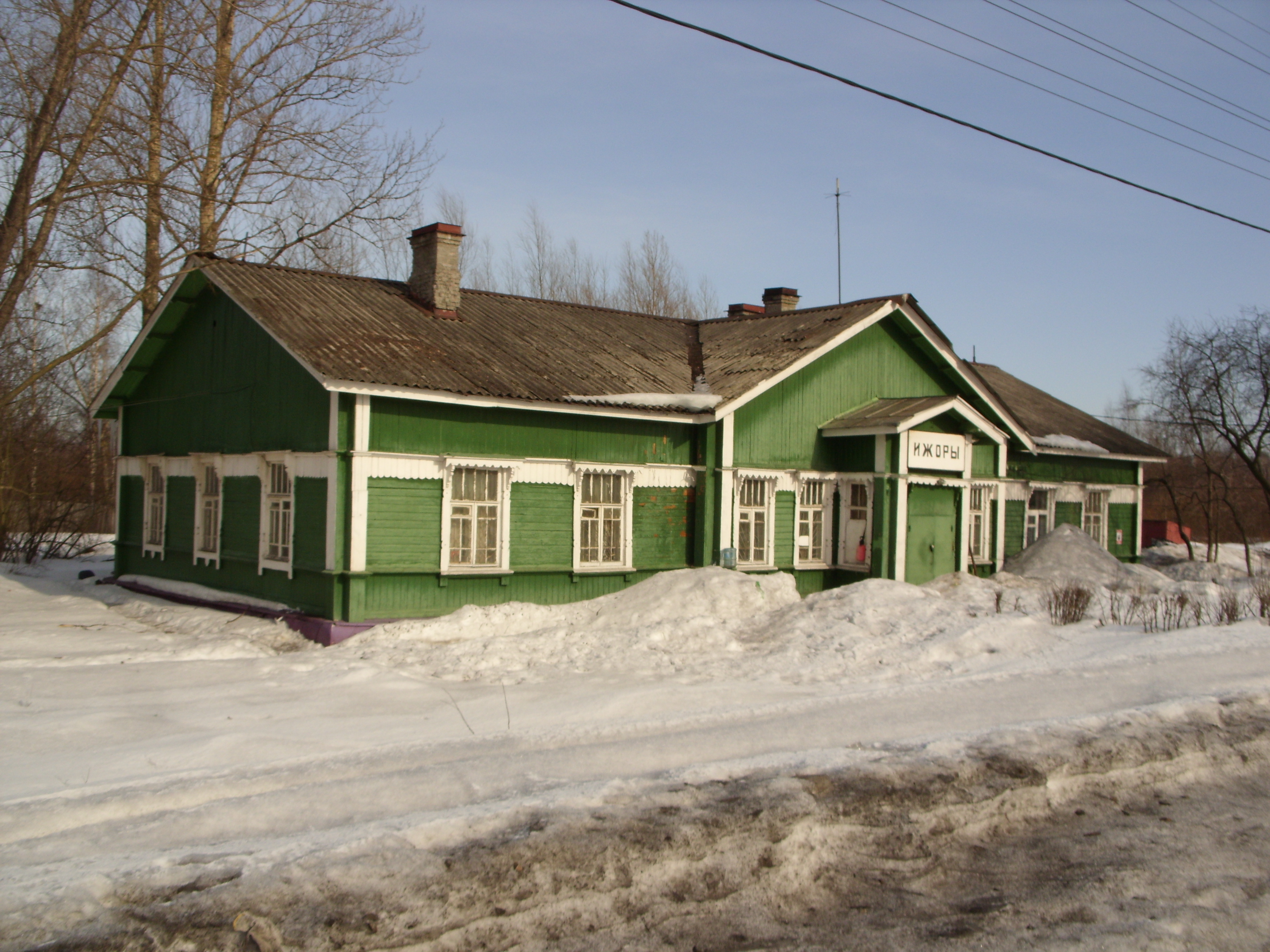 Izhory